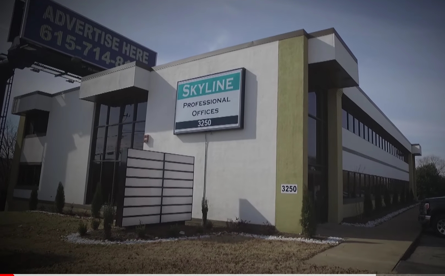 Impact headquarters